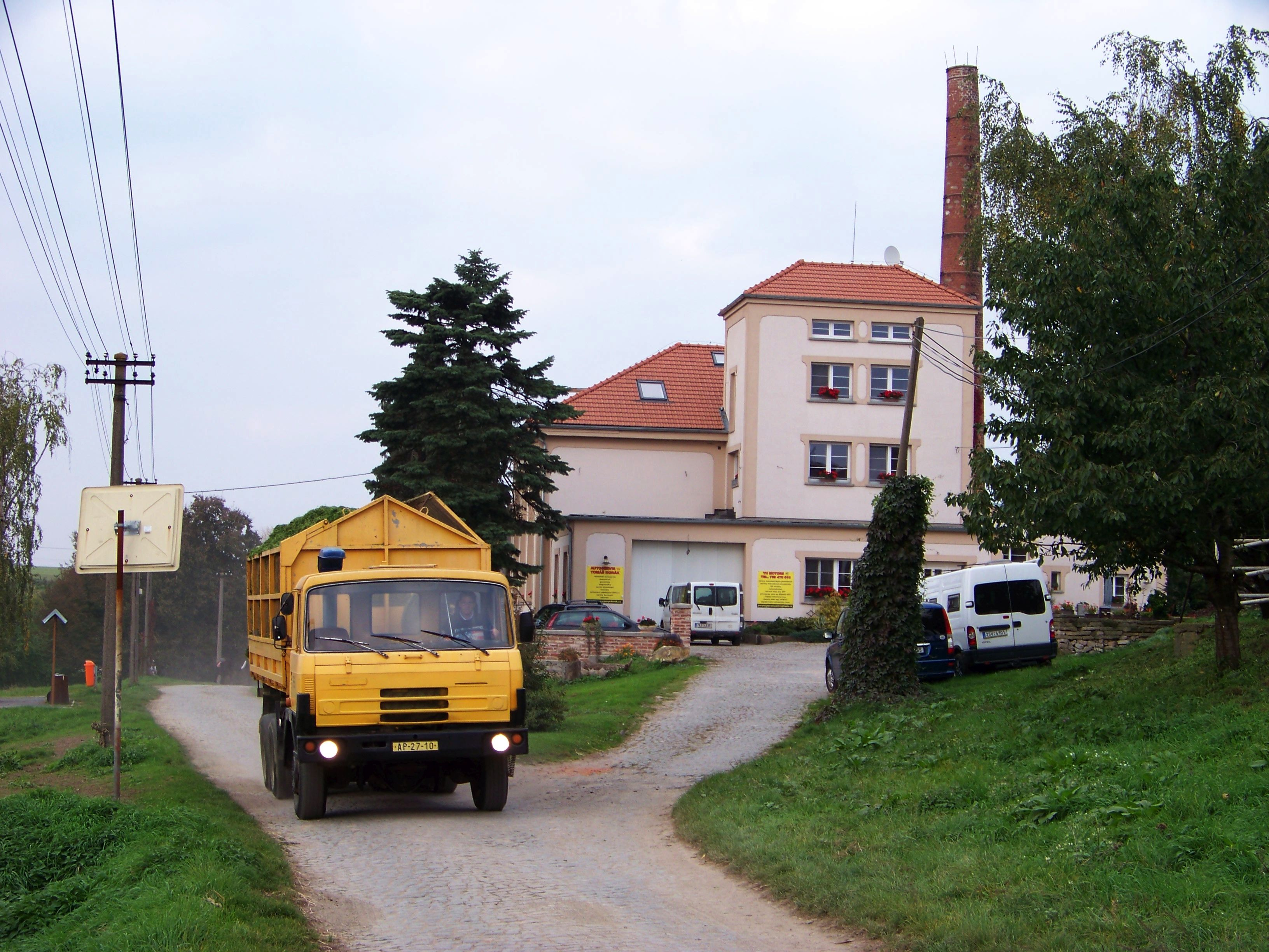 Prague-Uhříněves, Czech Republic. Netluky, a former distillery.